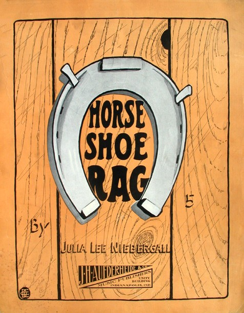 Horse Shoe Rag, 1911